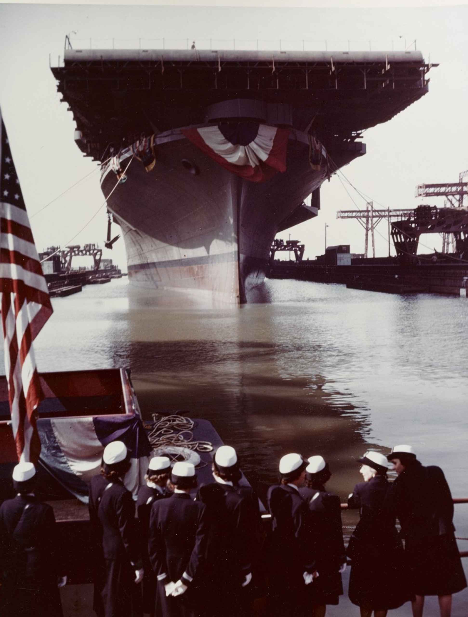 USS Franklin (CV-13) is floated out of her building dock immediately after christening, at the Newport News Shipbuilding and Drydock Company shipyard, Newport News, Virginia, on 14 October 1943. Note WAVES officers in the foreground. The WAVES' Director, Lieutenant Commander Mildred H. McAfee, USNR, was Franklin's sponsor.